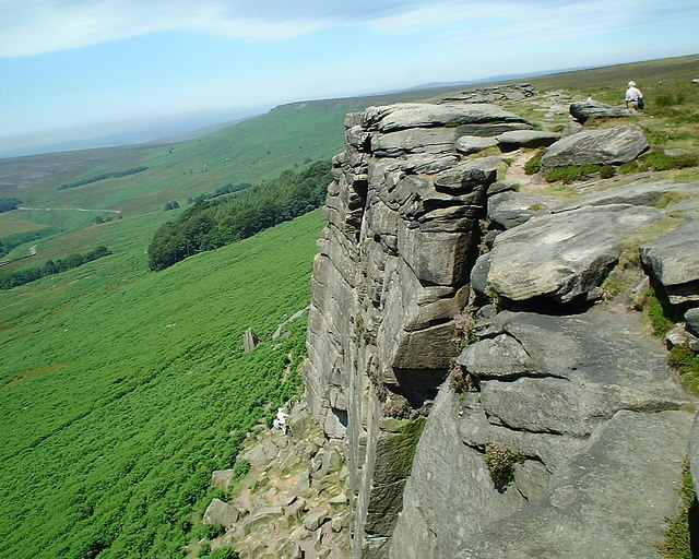 Stanage Edge